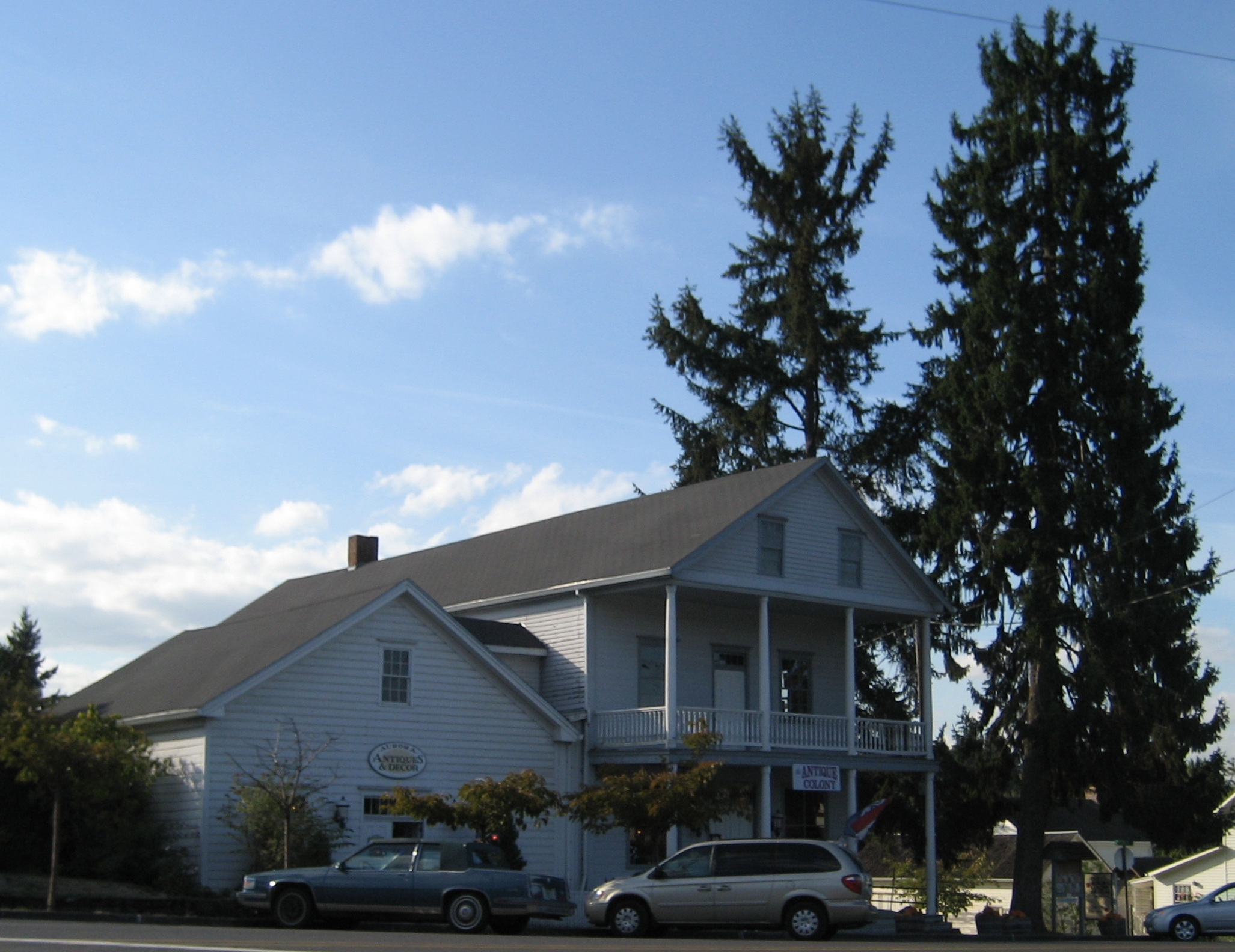 Building in Aurora, Oregon, United States.